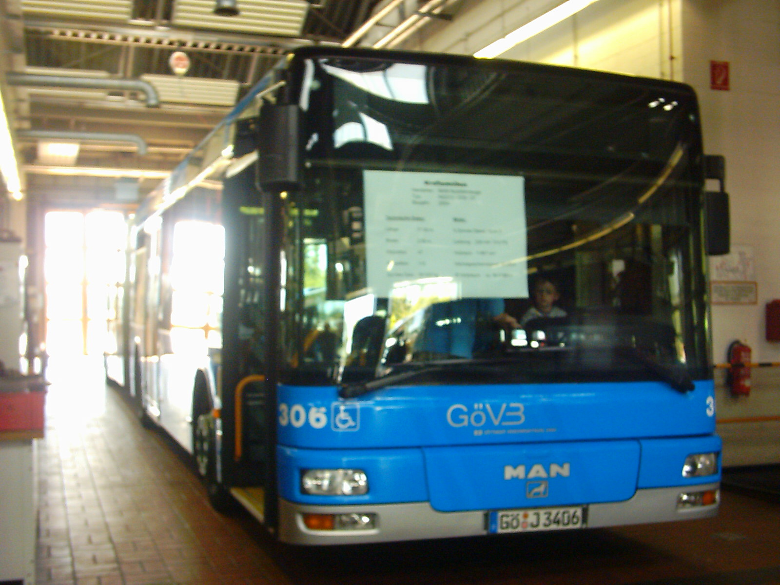 Not a MAN NL 312 but a MAN NG 313.